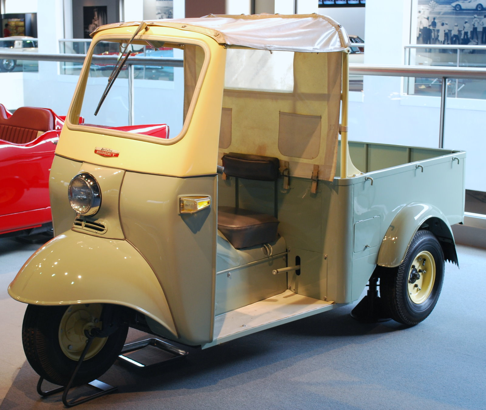 1st generation Daihatsu_Midget Model DKA